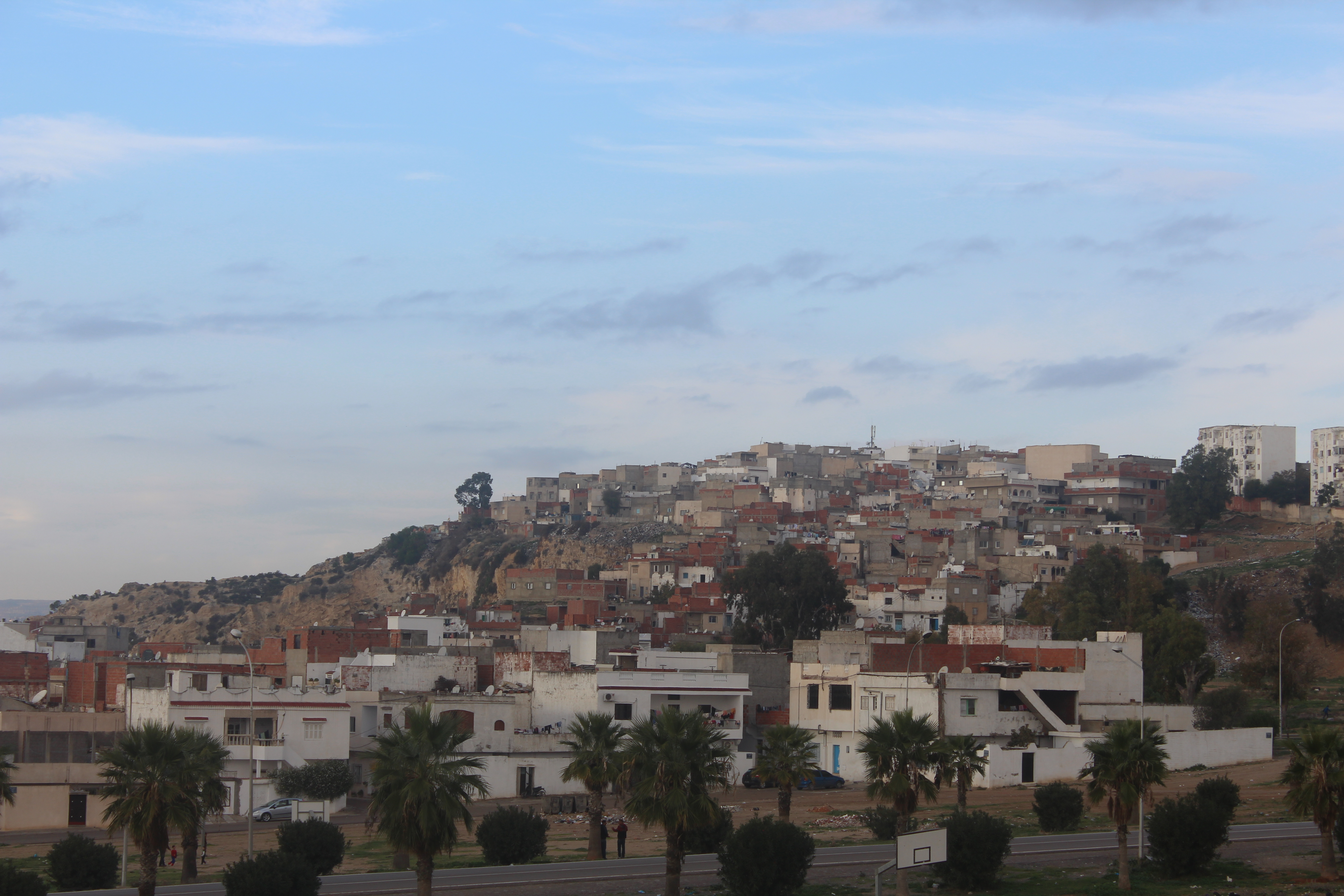 It is a popular city in Tunis near Montfleury .